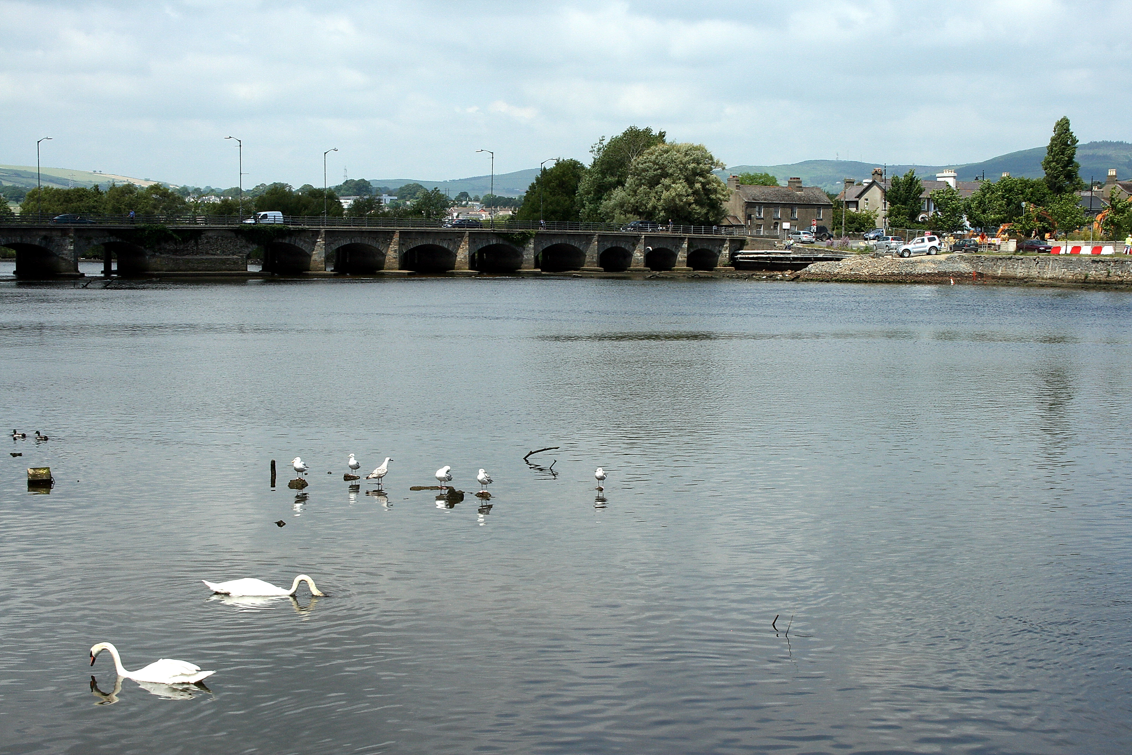 The "19 arches" bridge spanning the Avoca River, joining Ferrybank to the centre of Arklow, County Wicklow